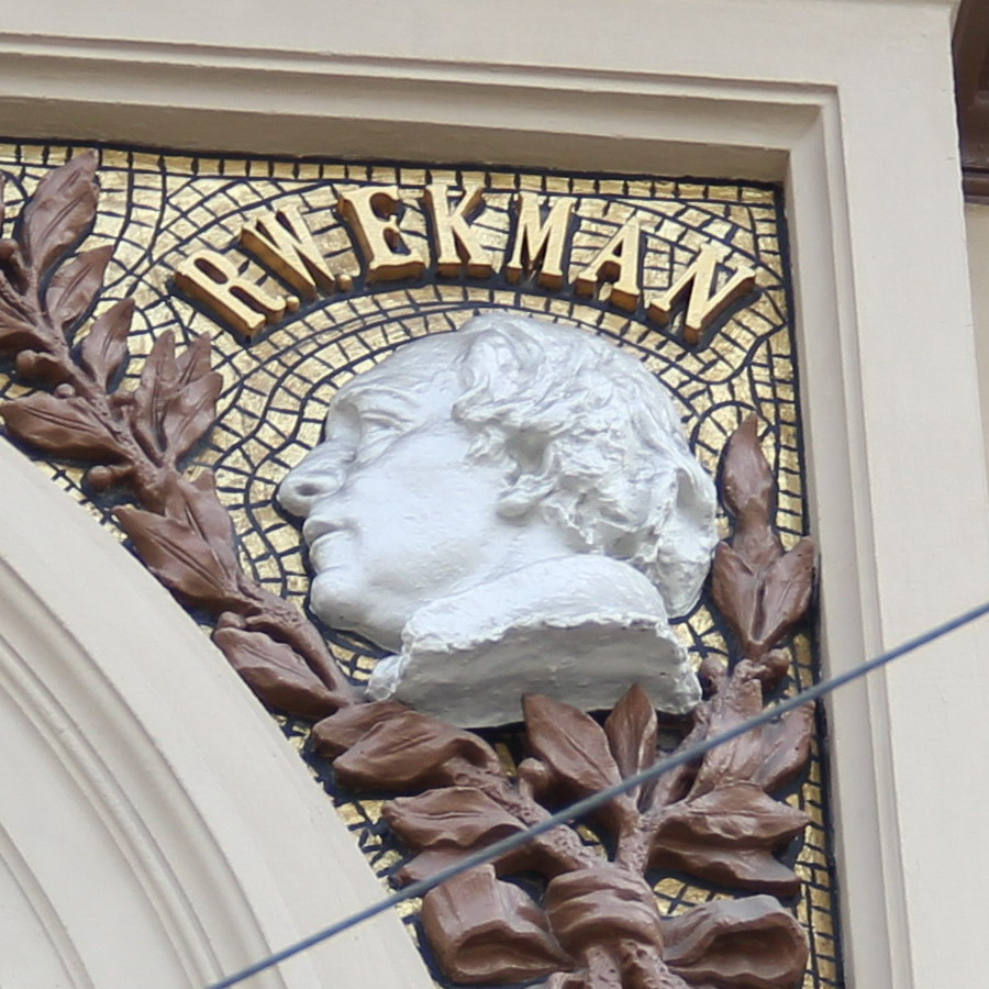 Medallion portrait sculptures on the main facade of the Ateneum Art Museum, Helsinki, Finland. Portrait of finnish artist Robert Wilhelm Ekman by Ville Vallgren, unveiled in 1887.